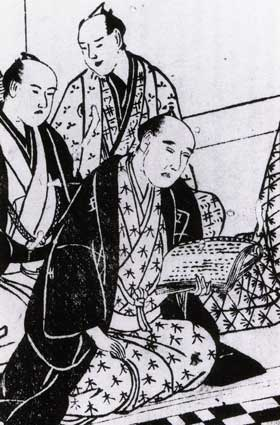 Portrait of Namiki Gohei I by unknown artist